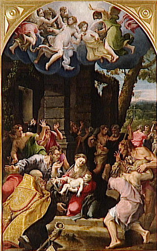 Adoration of the Shepherds, currently in the Louvre